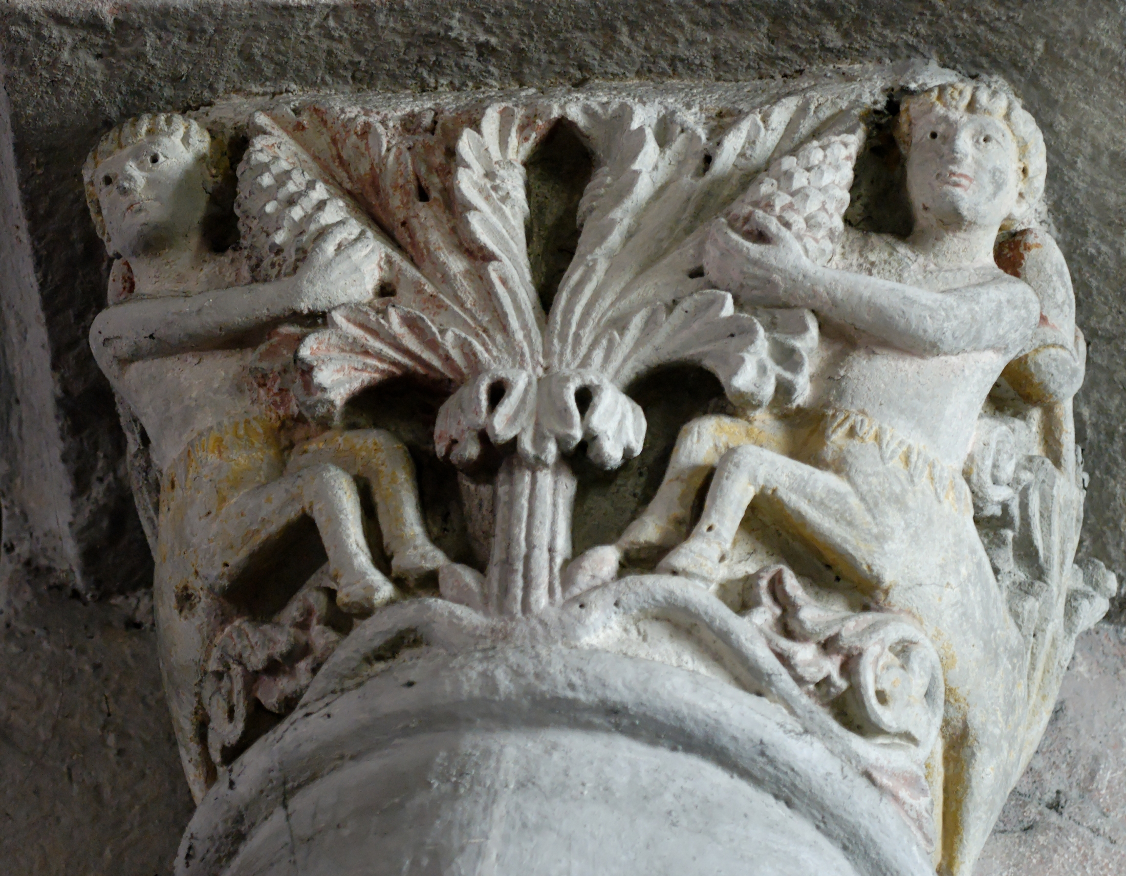 Centaurs harvesting grapes. Sculpted capital from the nave of the abbey-church in Mozac, 12th century.